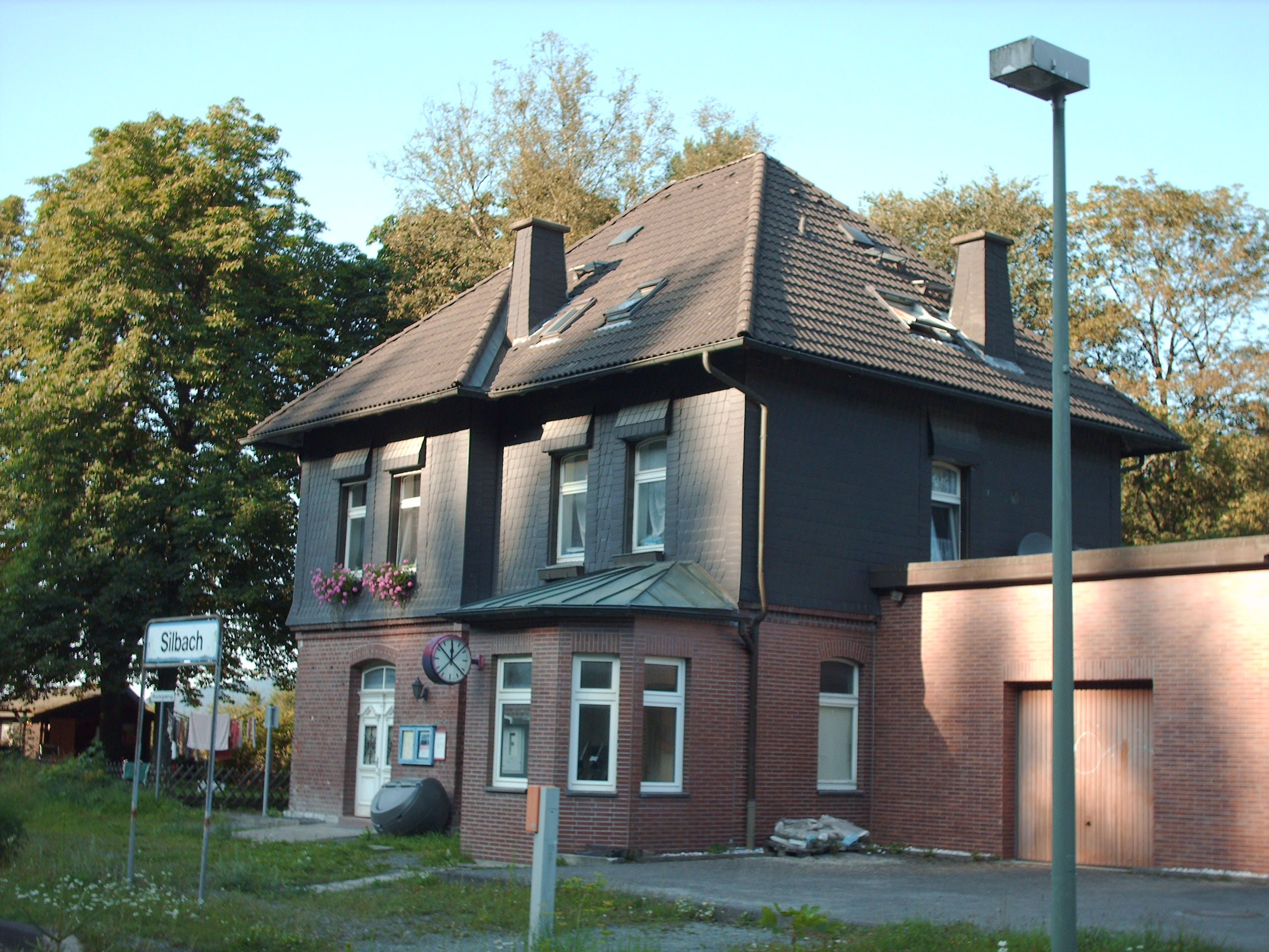 Silbach station, Winterberg, Germany check usage